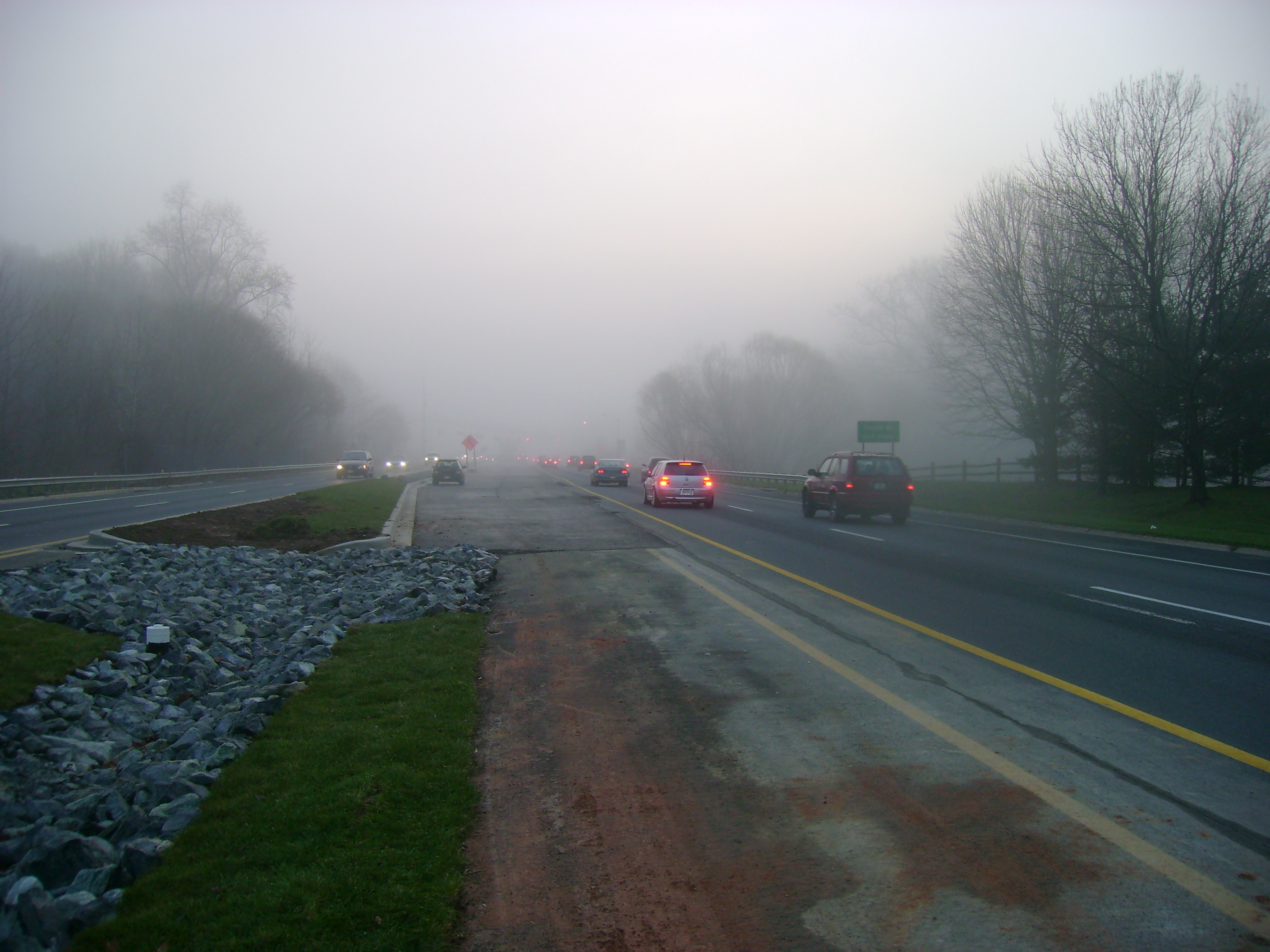 MD 124 (Midcounty Highway) at Goshen Road, Gaithersburg, MD, USA